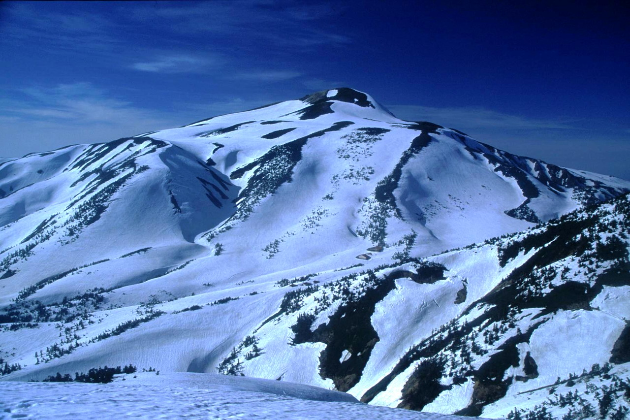 Mount Haku from_aburazaka